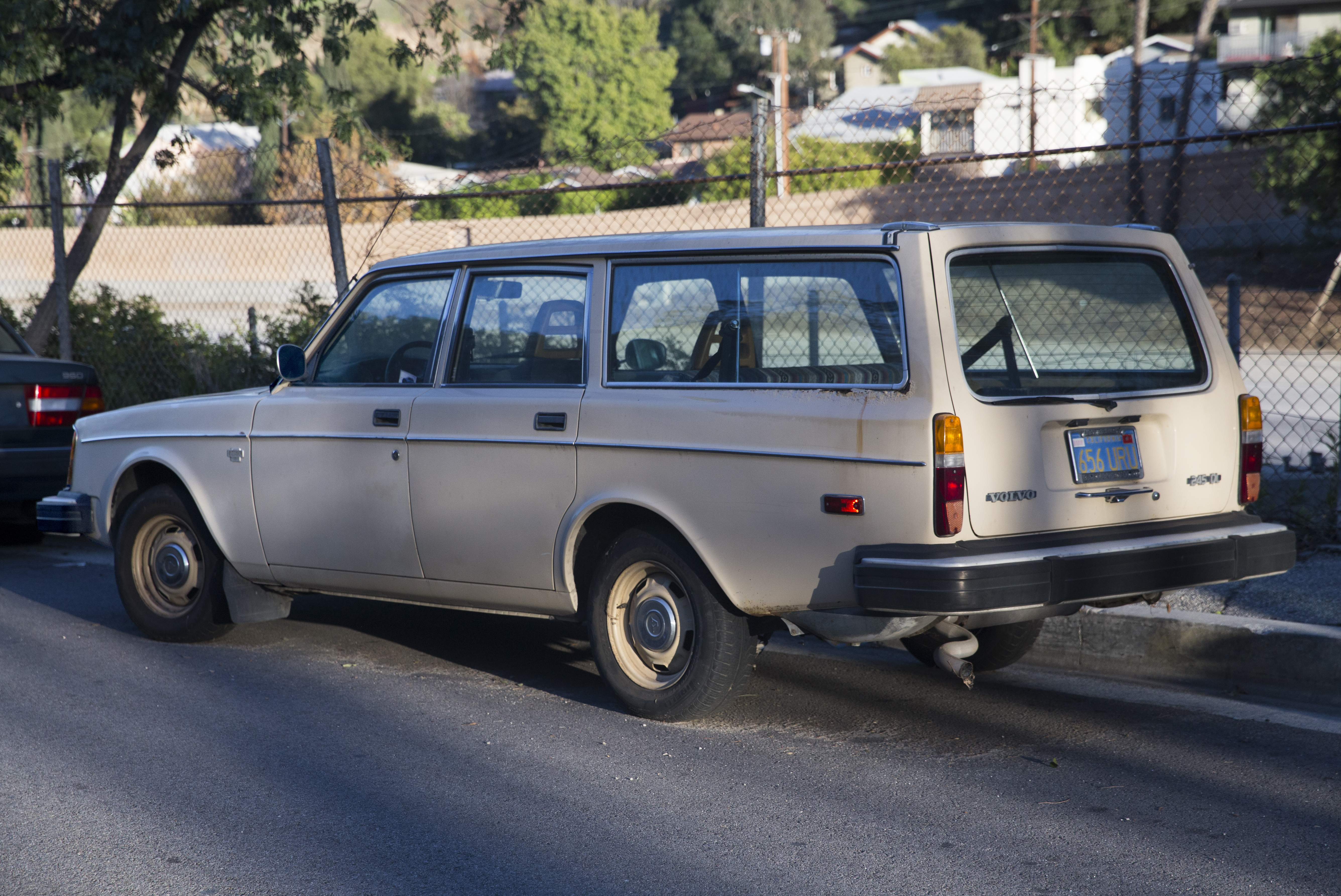 A 1978 Volvo 245 DL in Silver Lake, Los Angeles. Chassis number VC24545L1193407, which makes it a B21F-engined car built in Gothenburg about two-thirds of the way through the model year.